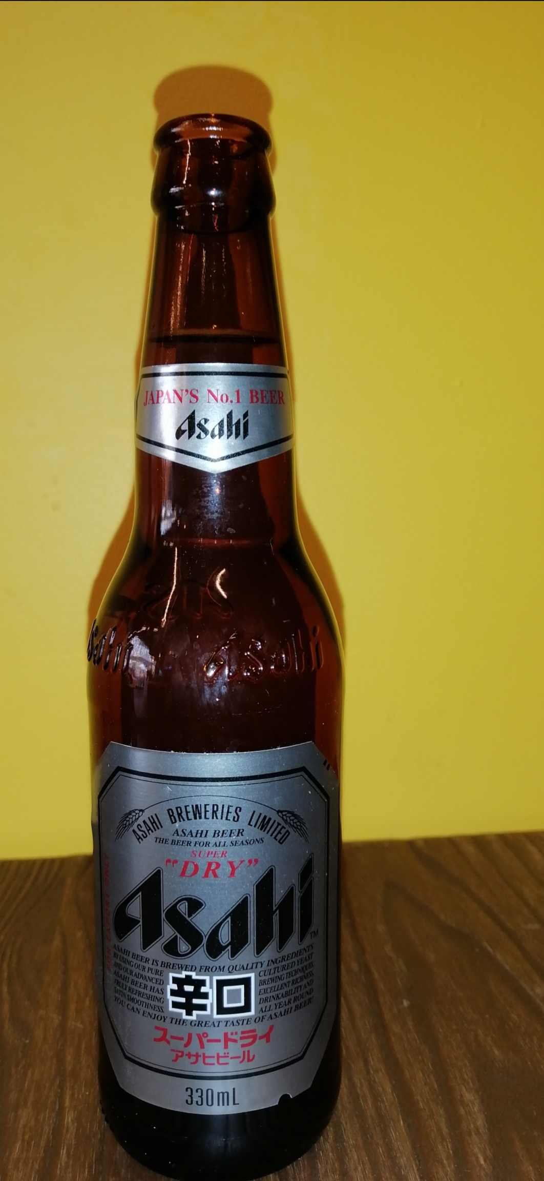 Asahi Dry. 330mL bottle